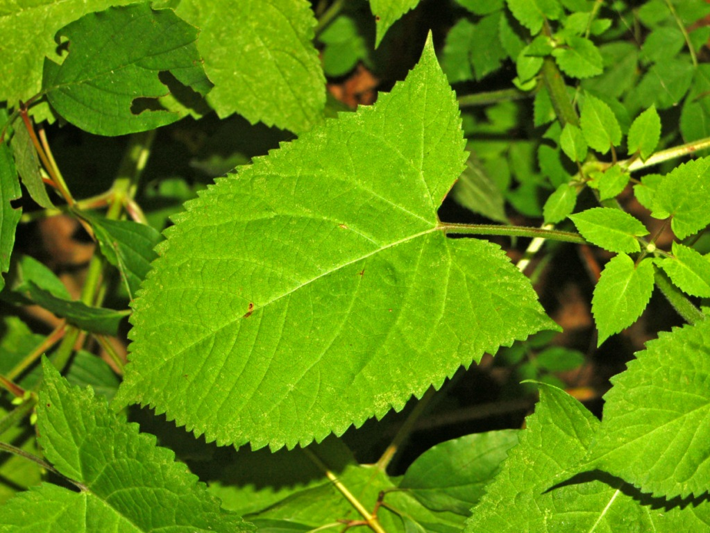 Salvia glutinosa - Val Noci, Genova, Italy